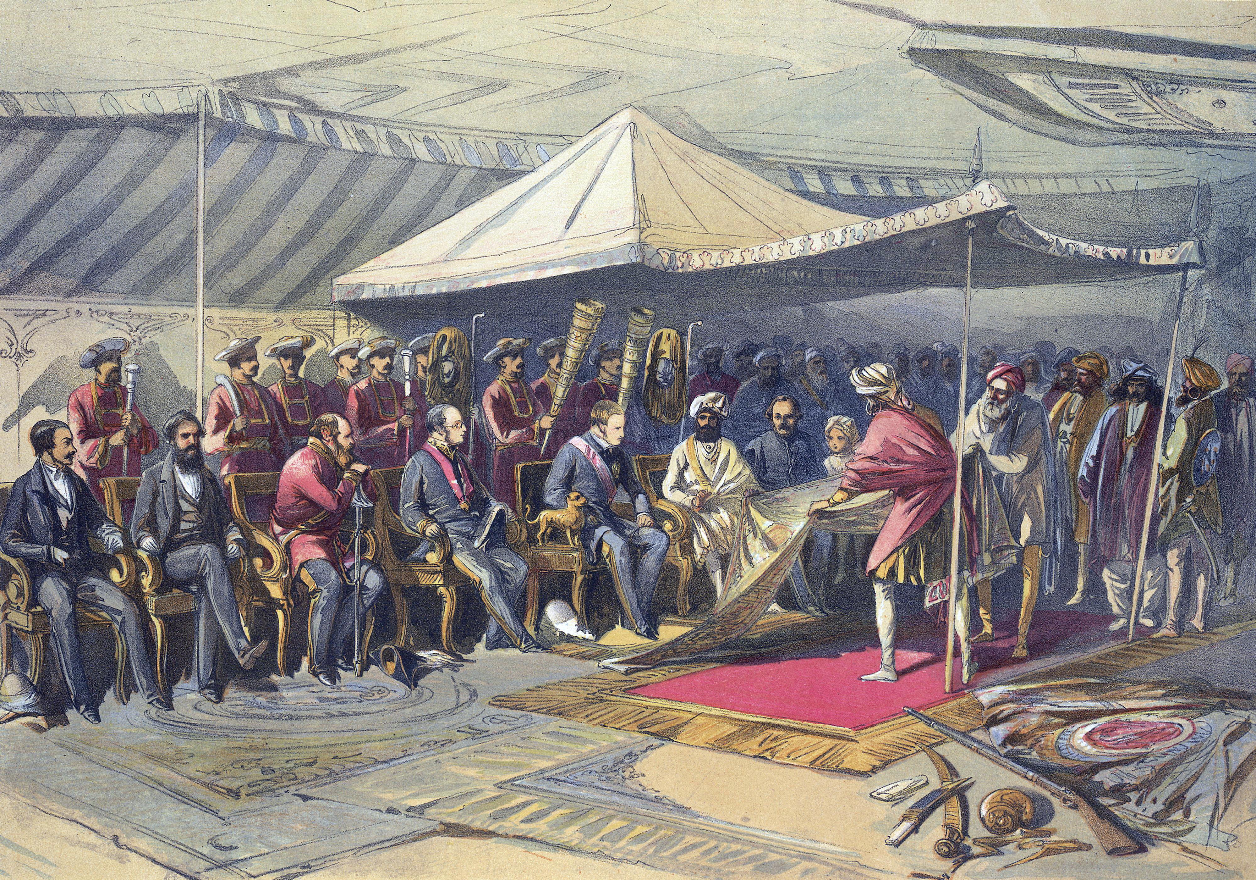 Artist: Simpson, William (1823-1899) Medium: Chromolithograph Date: 1867 This chromolithograph is taken from plate 30 of William Simpson's 'India: Ancient and Modern'. It illustrates the return visit made by Viceroy Lord Canning to Maharaja Ranbir Singh of Jammu & Kashmir on 9 March 1860, during the viceroy's progress through upper India. The Maharaja had come to meet him a day earlier. The Maharaja's tent was decorated with cashmere shawls, and silk and gold materials were placed beneath the chair reserved for the viceroy. Beautiful, detailed watercolours such as this provided vignettes of contemporary ceremonial life in India for people in Britain.